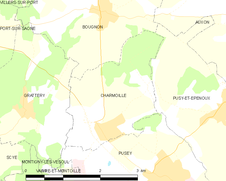 Map of French municipality